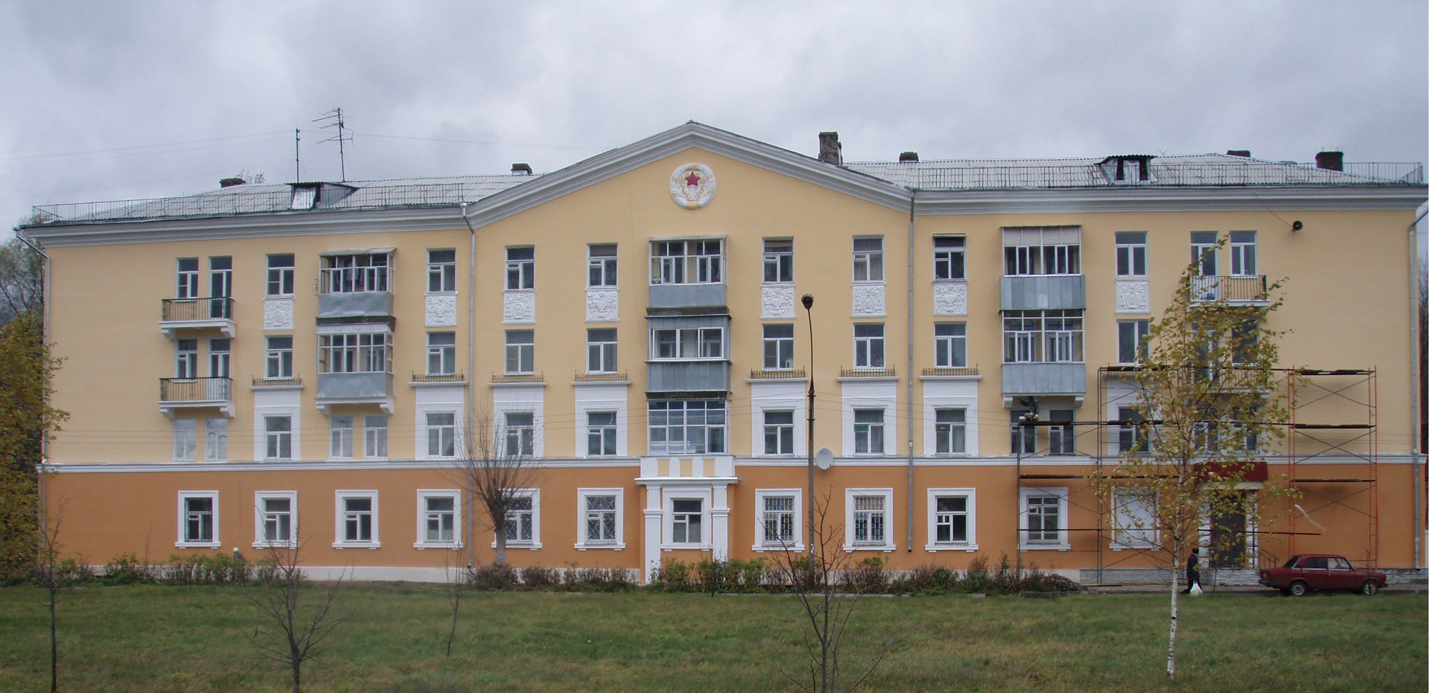 Stalinist house on Rapova street (Rybinsk)